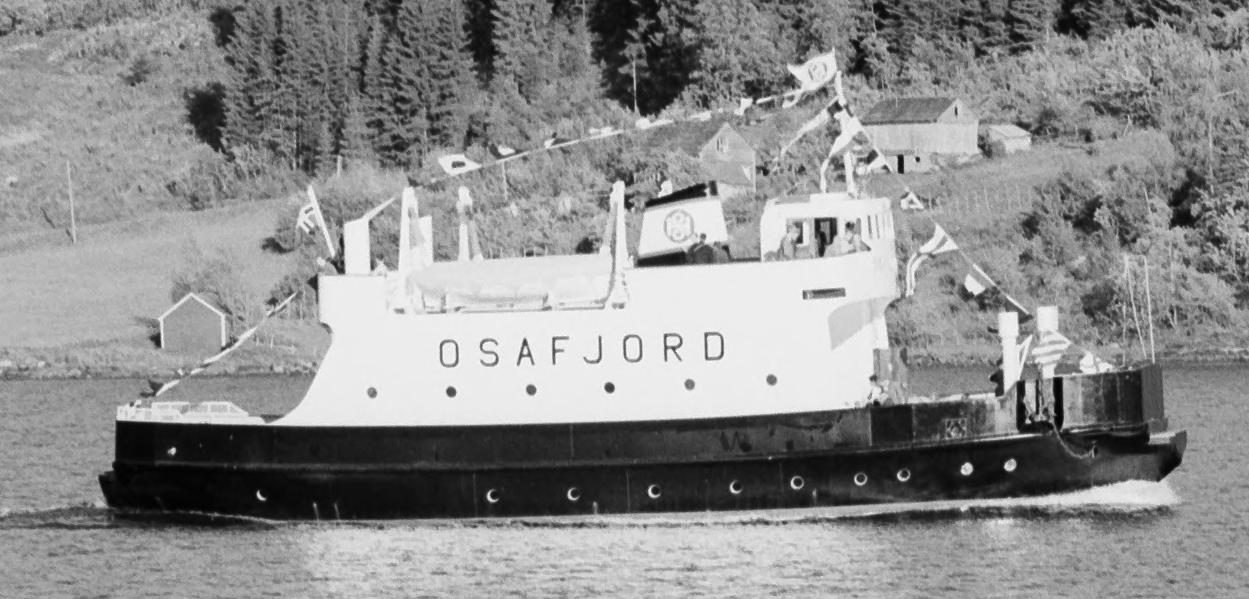 MF Osafjord in Ulvik